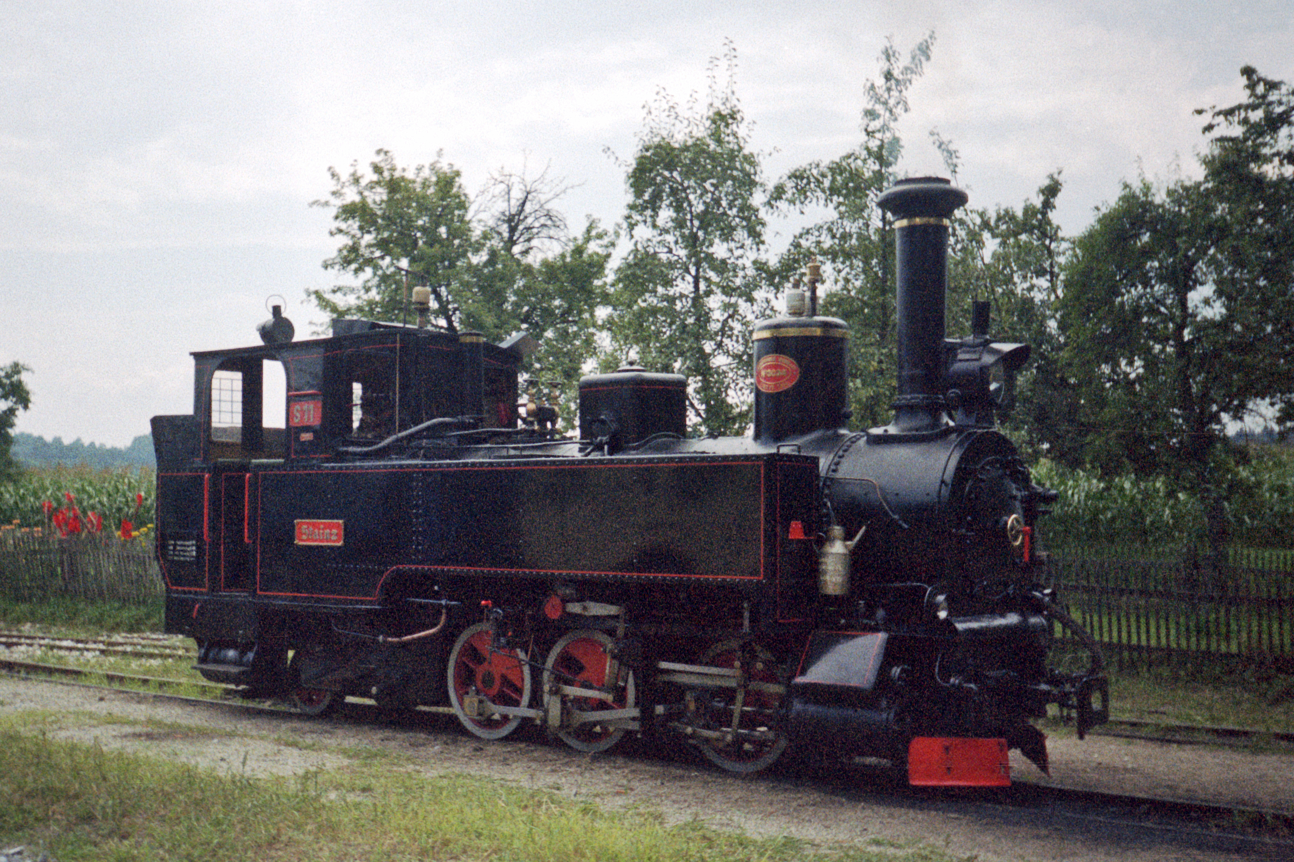 StLB S11 "Stainz" (former Salzkammergut-Lokalbahn No. 11) at Stainz station.